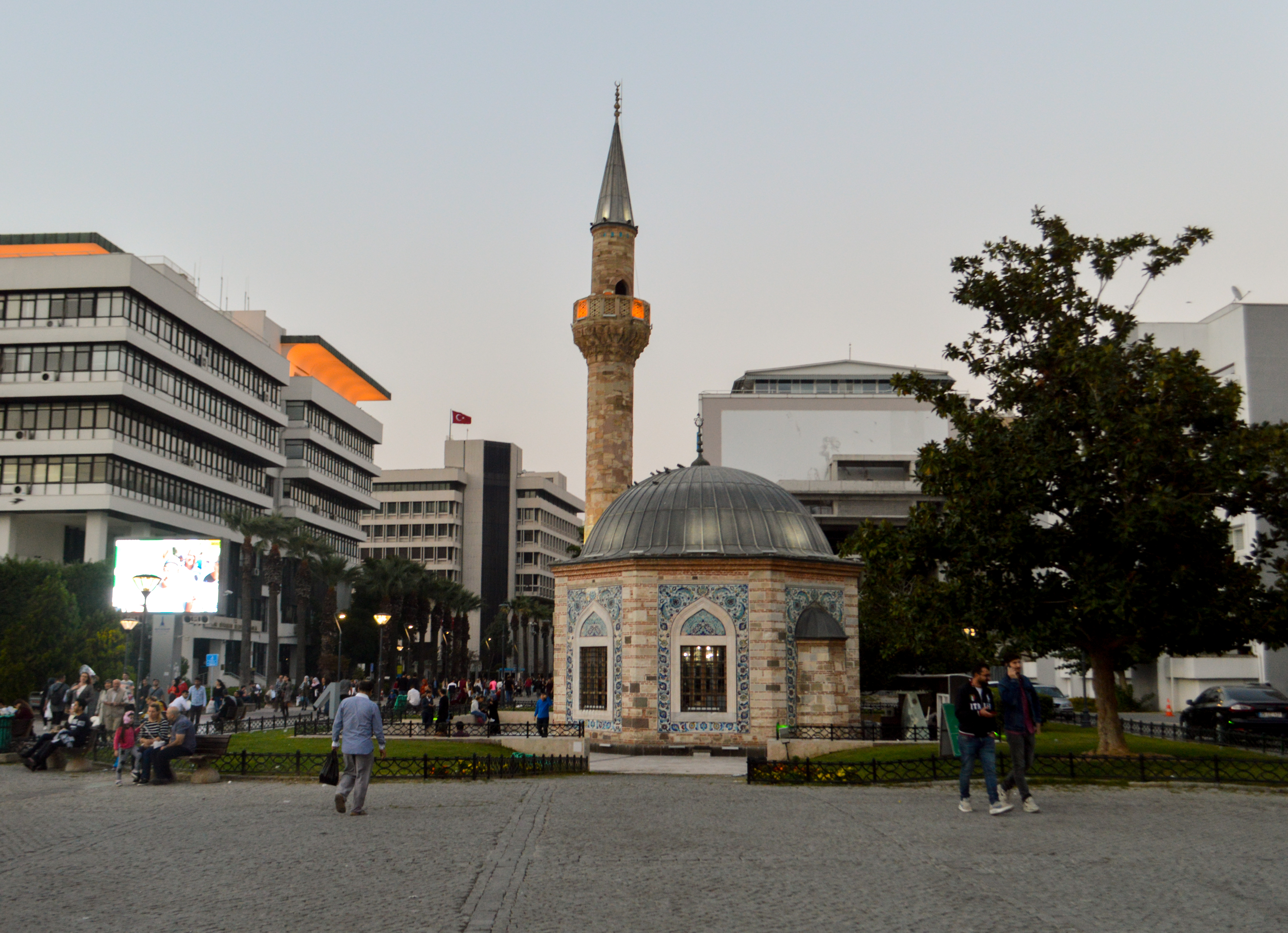 Mosque and city hall seen from Konak Square